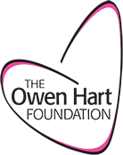 Logo of the Owen Hart Foundation, a Canadian nonprofit